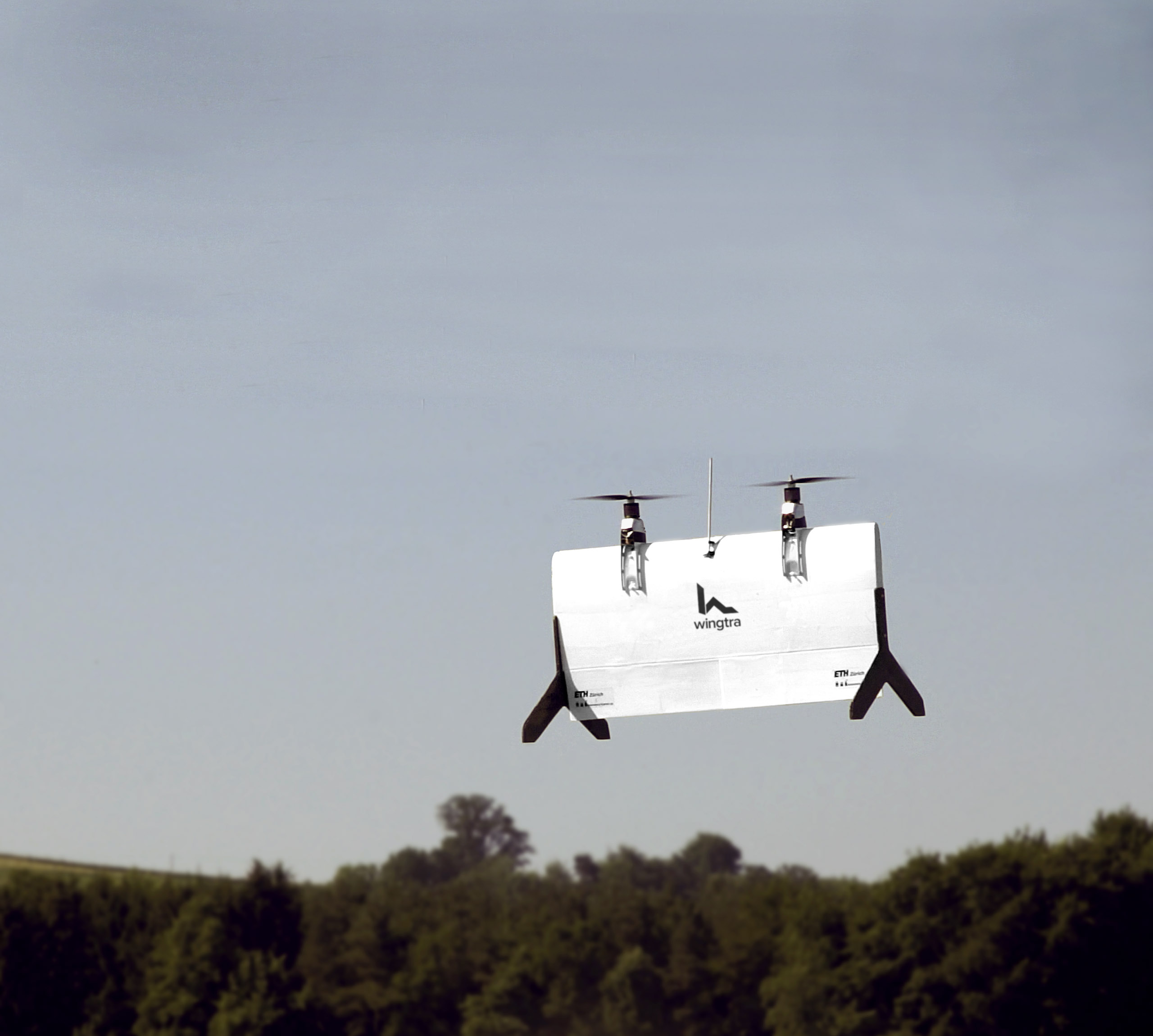 An early Wingtra prototype, also called PacFlyer